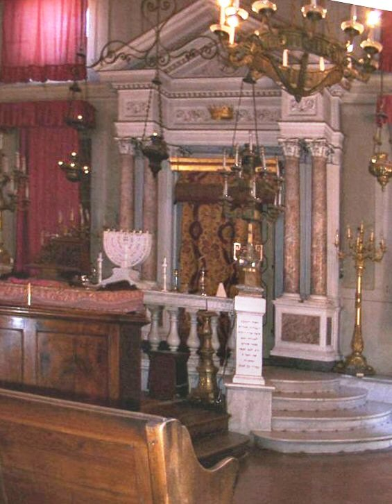 Haaron hkodesh in Pisa (Italy)